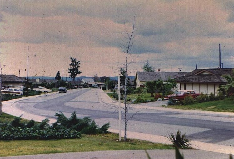 A street in Montclair, California. Photo taken in April 1967.